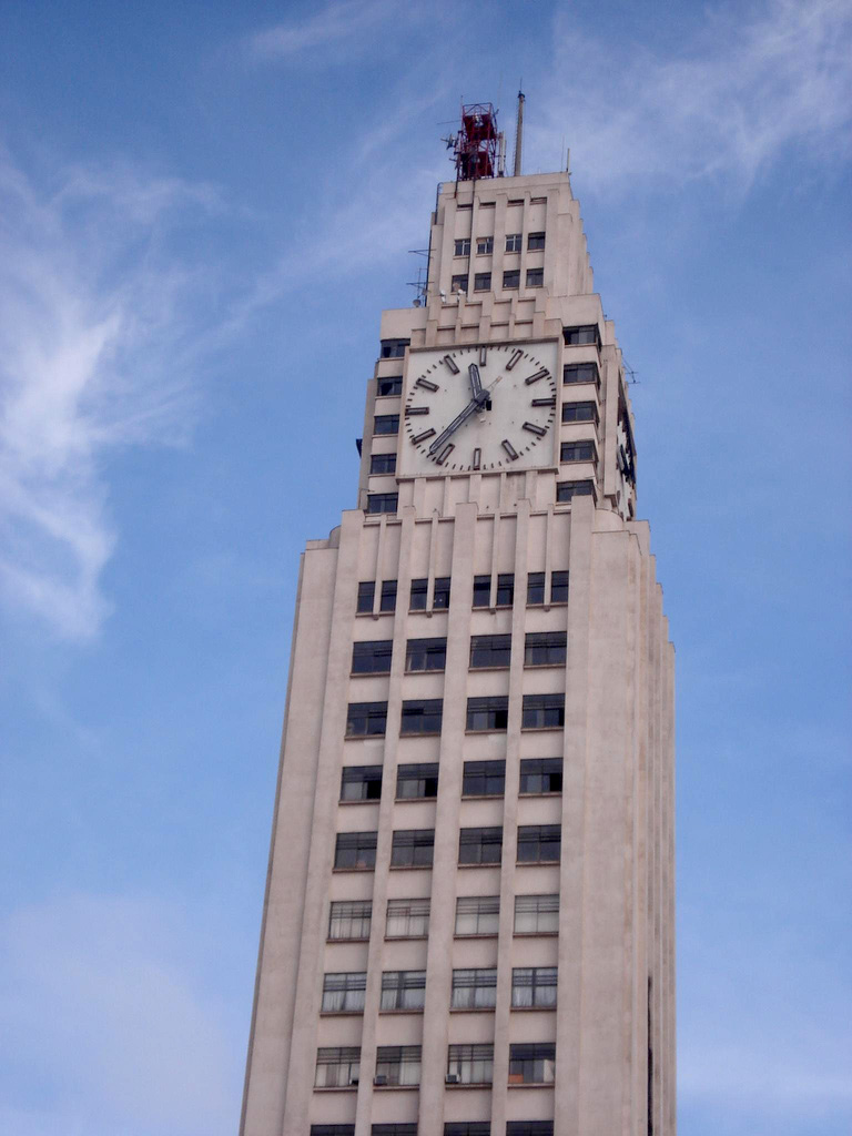 Clock tower of Central do Brasil railway station in Rio de Janeiro, Brazil